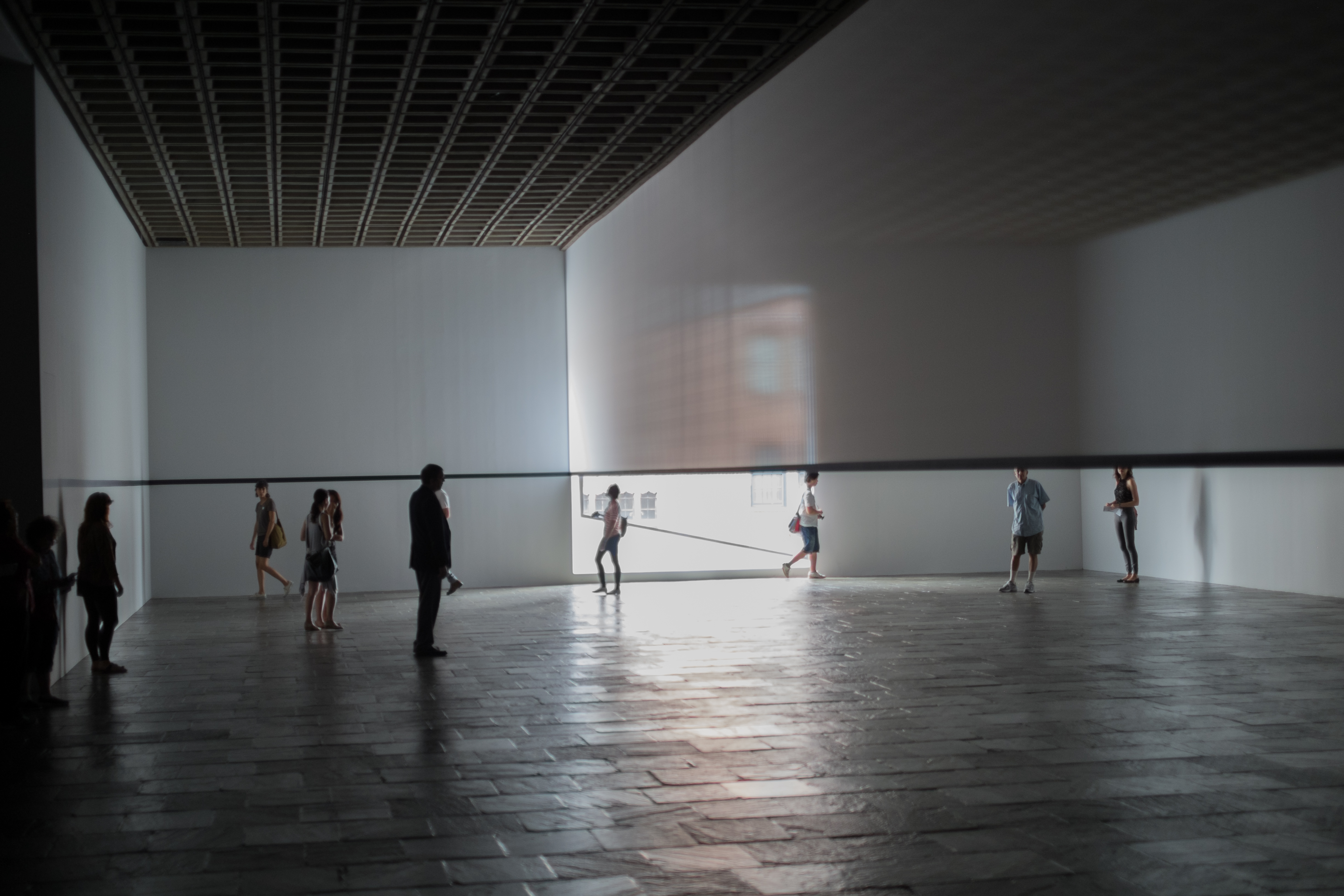 Robert Irwin: Scrim Veil—Black Rectangle—Natural Light, Whitney Museum Of American Art, New York (1977) June 27–Sept 1, 2013